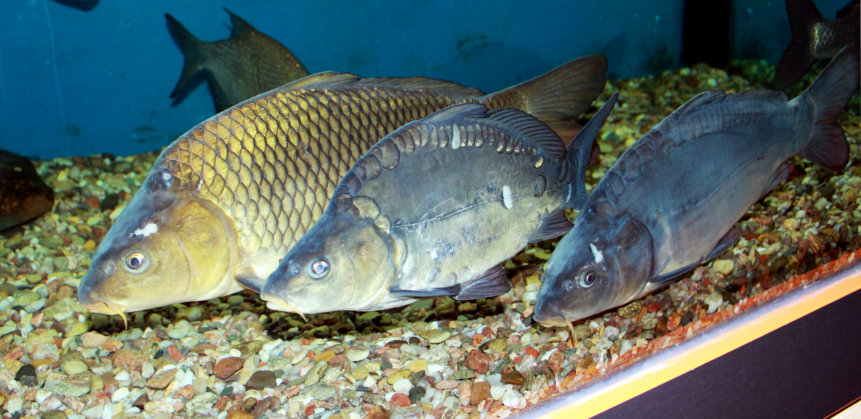 Common carp on exhibition Subaqueous Vltava, Prague 2011, Czech Republic